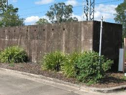 A World War II air-raid reinforced-concrete shelter at Landsborough Railway Station.